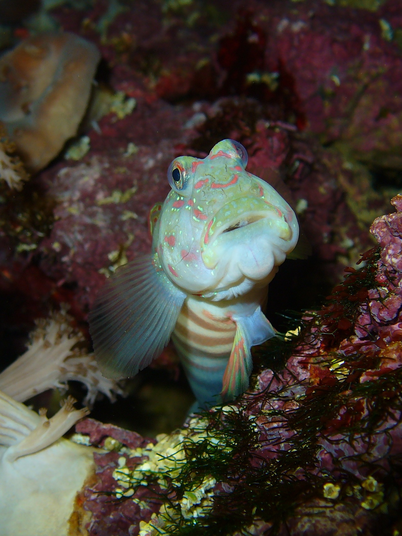 Cryptocentrus leptocephalus, Gobiidae, Pinkspotted Shrimp Goby; Staatliches Museum für Naturkunde Karlsruhe, Germany.